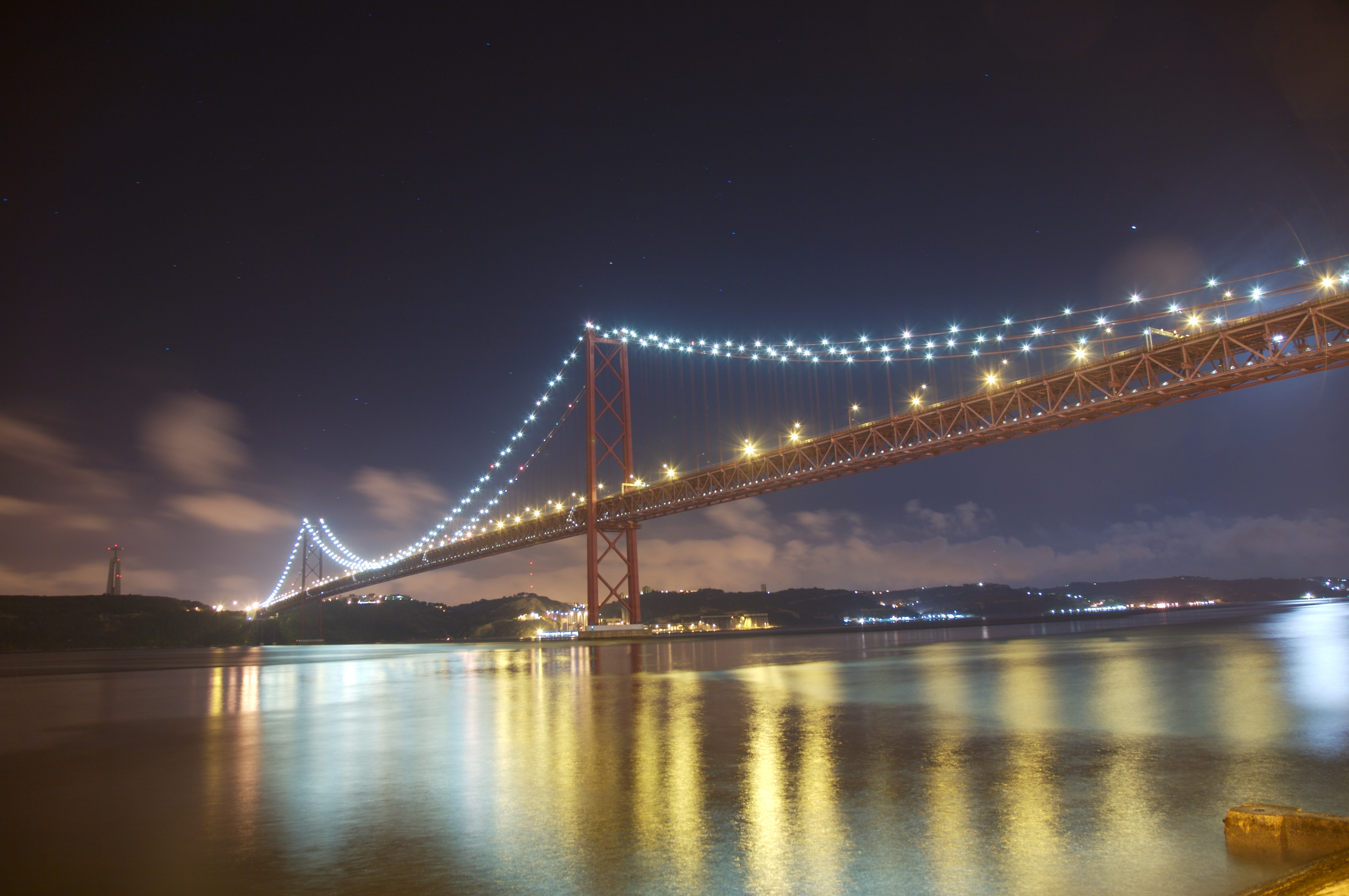 Lisbon's (Portugal) oldest bridge as seen from Docas. This bridge is incredibly similar to the Golden Gate Bridge.